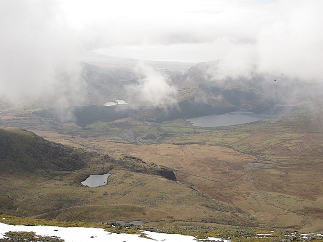 View to Caernarfon Bay from the Llanberis Path Here the mist has lifted sufficiently to give a tantalising view of the landscape all the way to Caernarfon Bay. In the foreground the small lake on the high ground of Cwm Clogwyn is Llyn Nadroedd. In the valley below, the spoil heaps of the disused Glanrafon slate quarry can be seen, and beyond that, what looks like twin lakes between the clouds, is Llyn y Dywarchen, which has a small island at its narrow point. The large lake below Mynydd Mawr is Llyn Cwellyn, a reservoir, and, in the far distance, the broad sweep of Caernarfon Bay can be seen through a gap in the clouds.